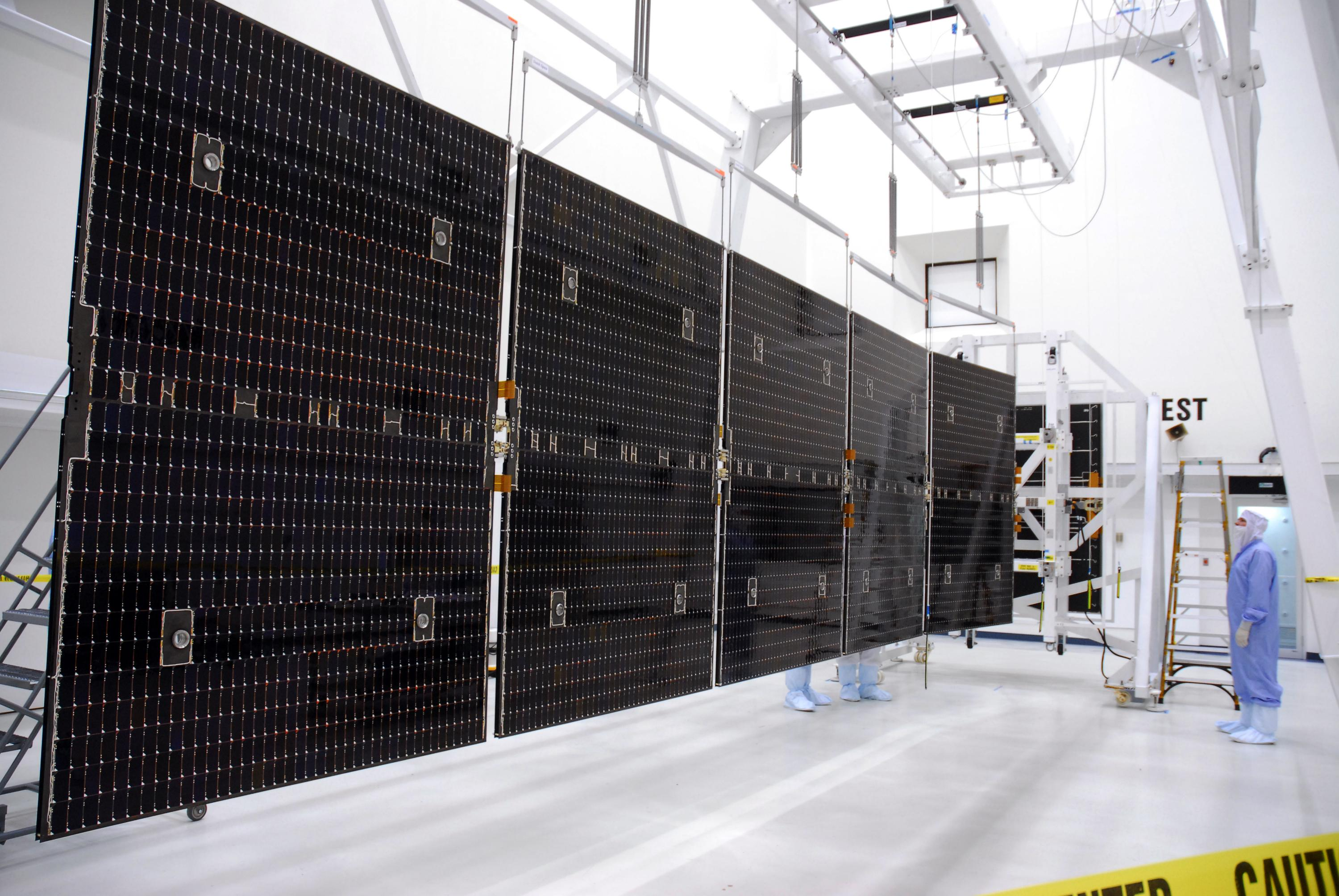 In a clean room at Astrotech, the solar panels of the Dawn spacecraft are extended to their full extent. The panels will be tested and undergo black light inspection. Dawn's mission is to explore two of the asteroid belt's most intriguing and dissimilar occupants: asteroid Vesta and the dwarf planet Ceres. Dawn is scheduled to launch June 30 from Launch Complex 17-B. The panels seen here carry GaAs triple-junction solar cells.[1]